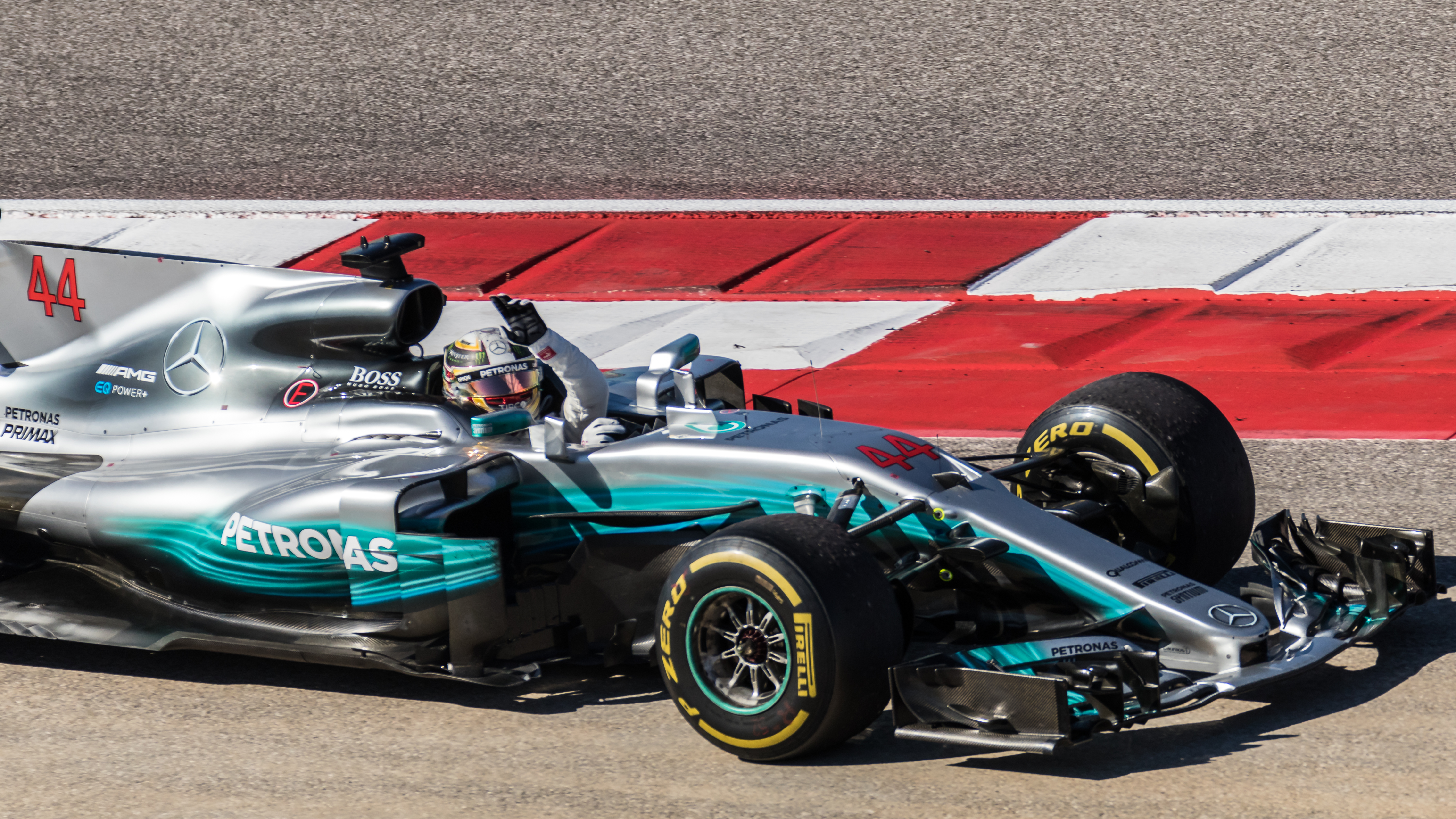 Lewis Hamilton Rules Circuit of the Americas again